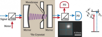 Proyecto de Innovación Docente 2013 de la ETSI de Telecomunicación UPM; coordinador P. Mareca, subido por Alberto Marcos